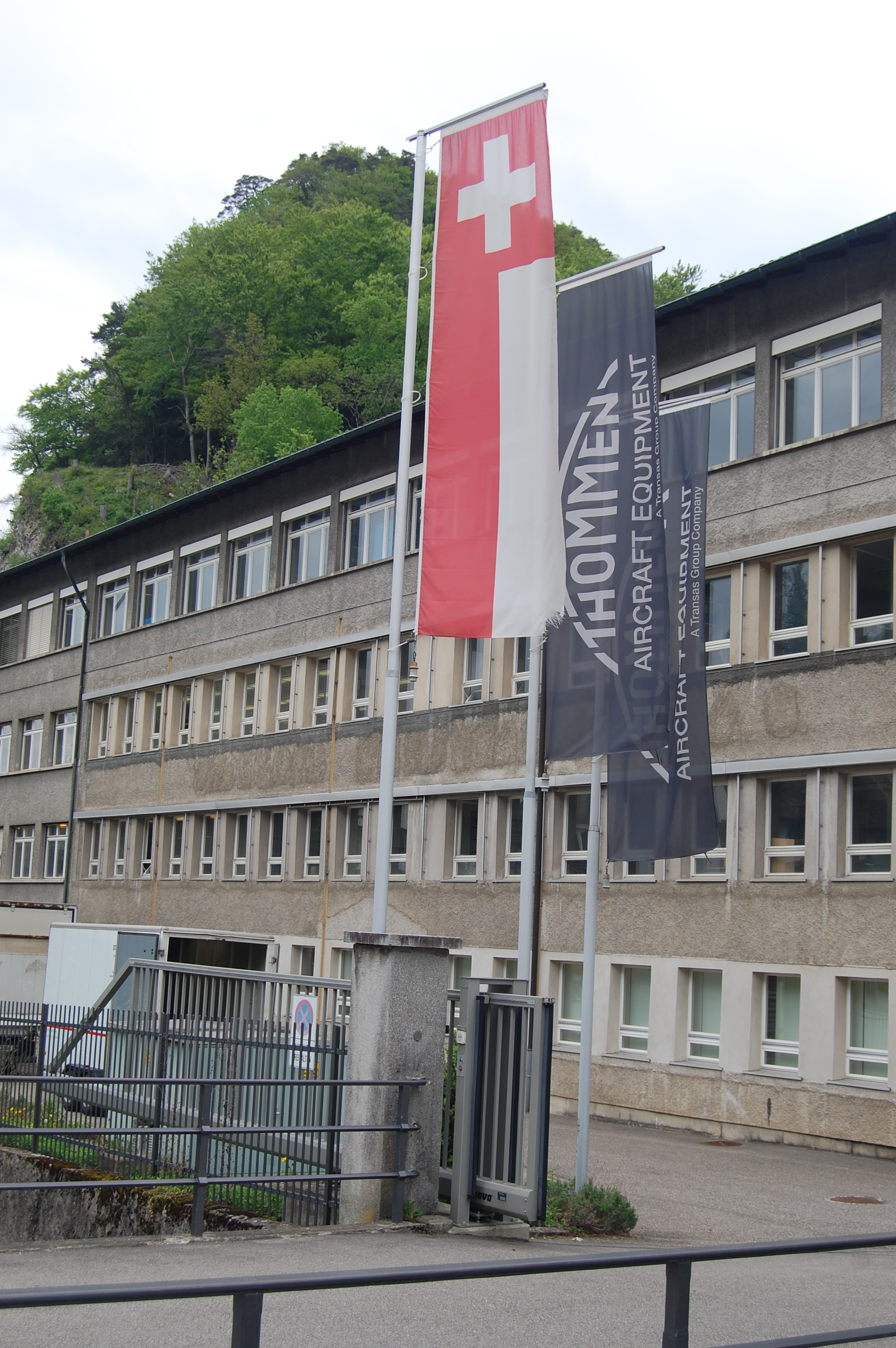 Revue Thommen AG, headquartered in Waldenburg, Switzerland.